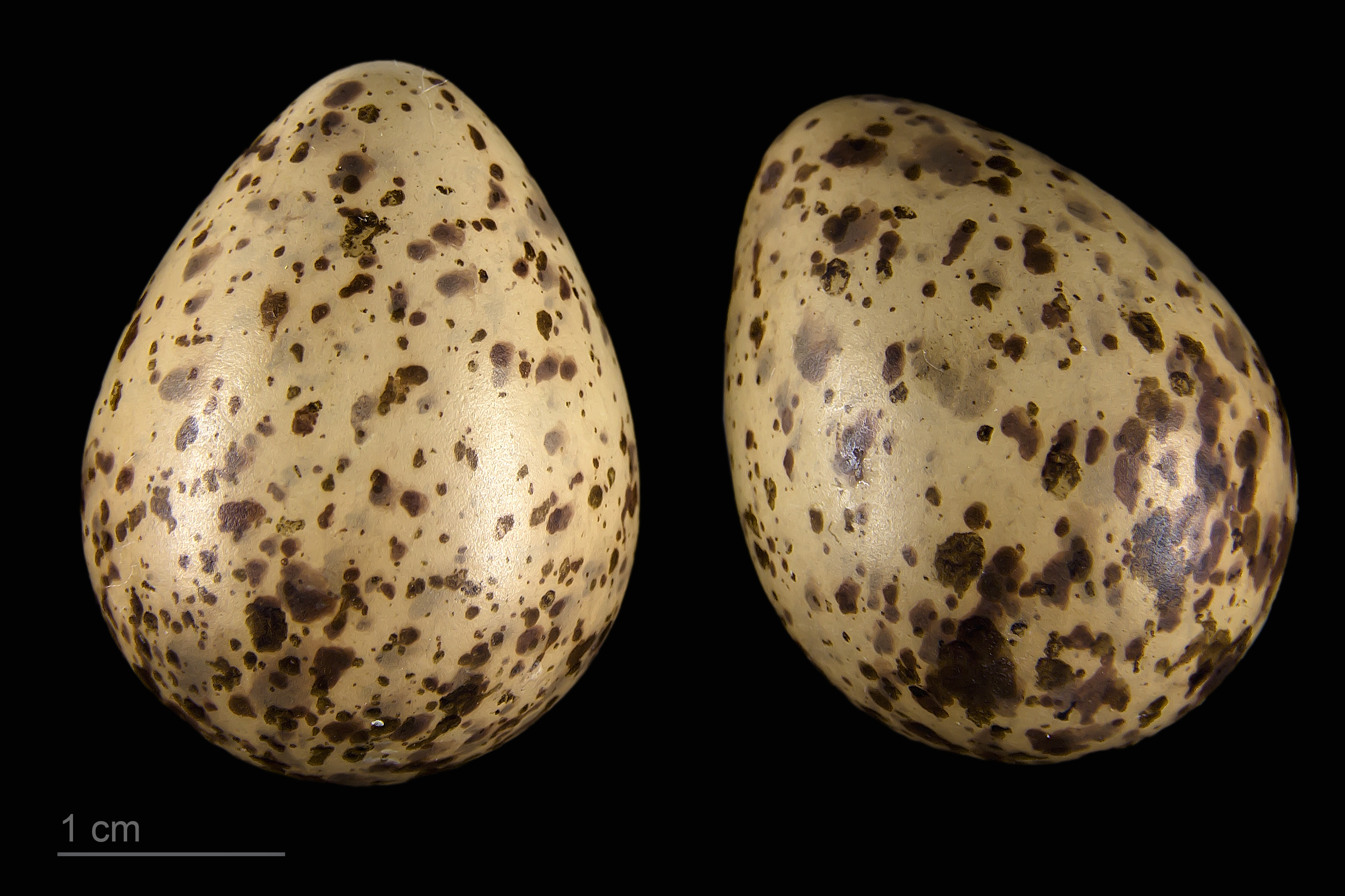 Eggs of Temminck's stint Two specimens of the same spawn ; collection of Jacques Perrin de Brichambaut.